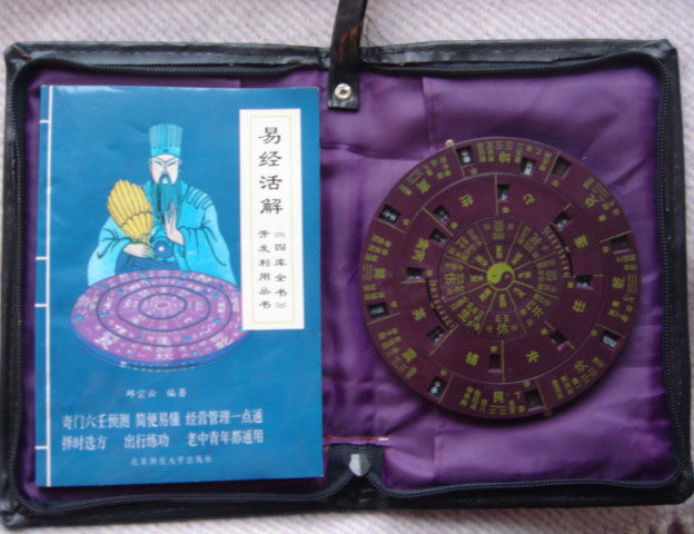 A Qi Men Dun Jia luopan set with book.